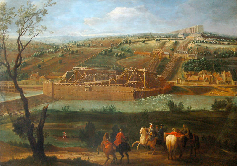 The Machine de Marly and the aqueduct at Louveciennes.